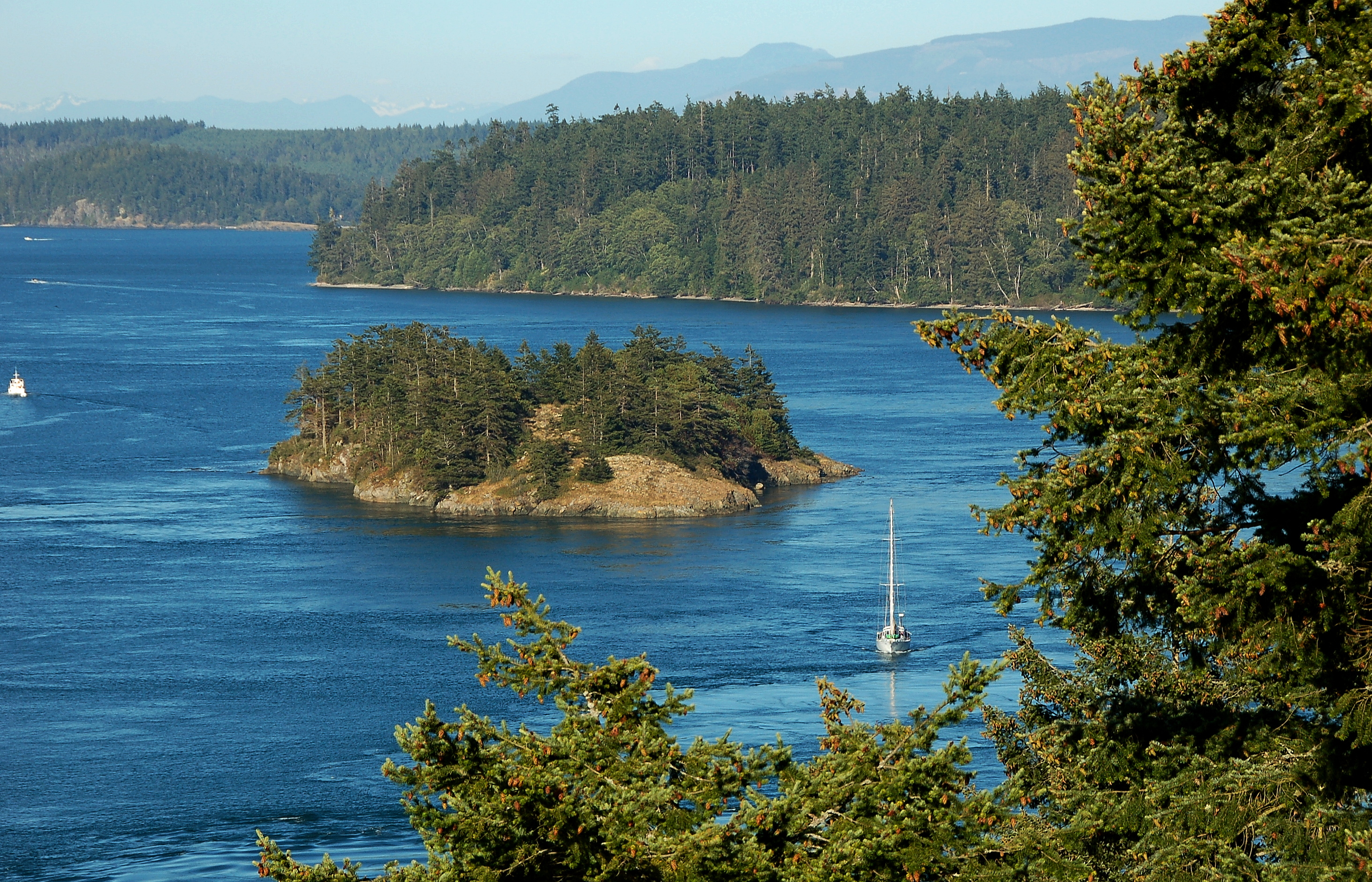 Deception Pass, Puget Sound, Washington State